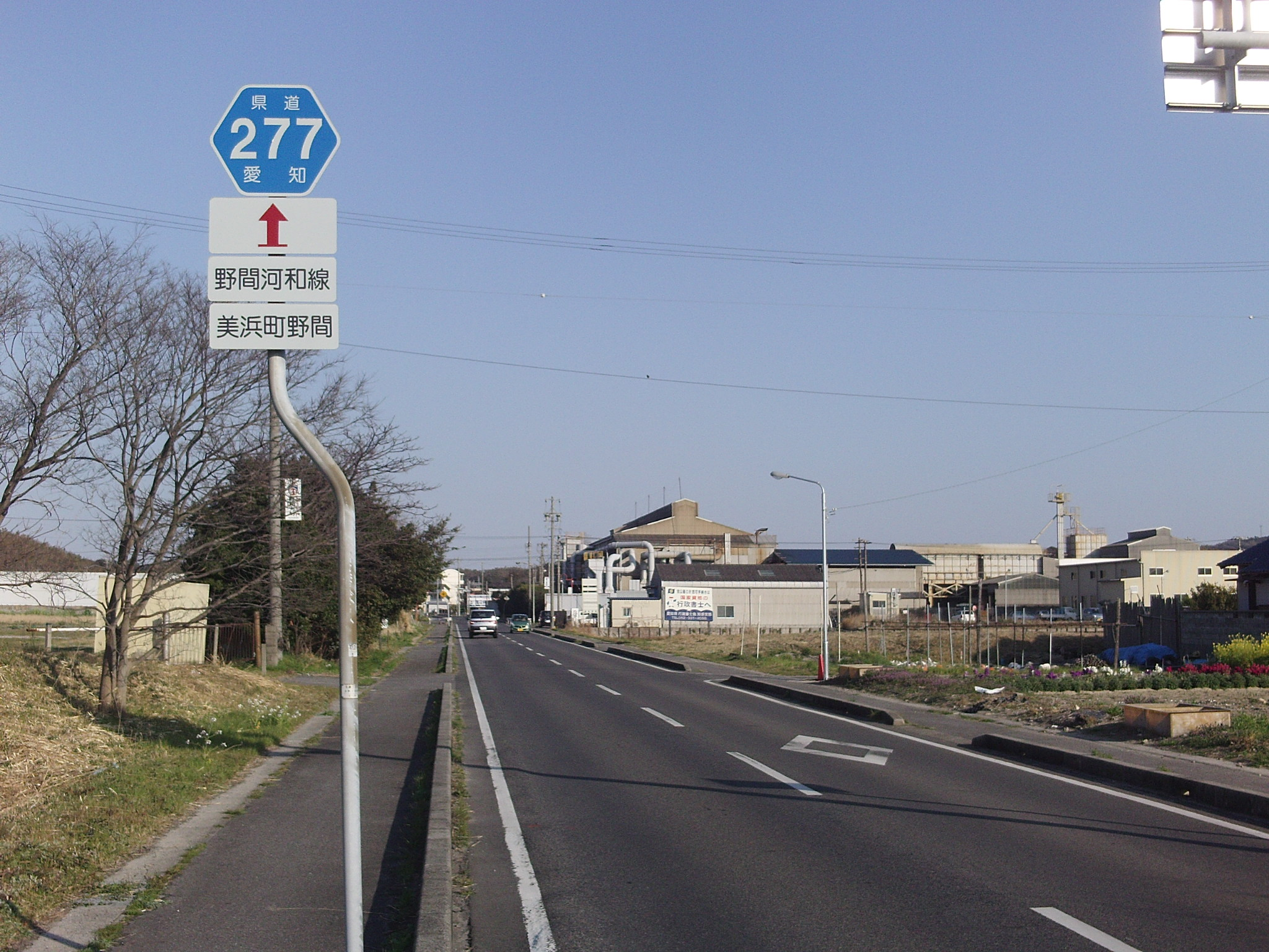 Aichi prefectural road No.277 bypass in Okuda, Mihama-cho, Chita-gun, Aichi.